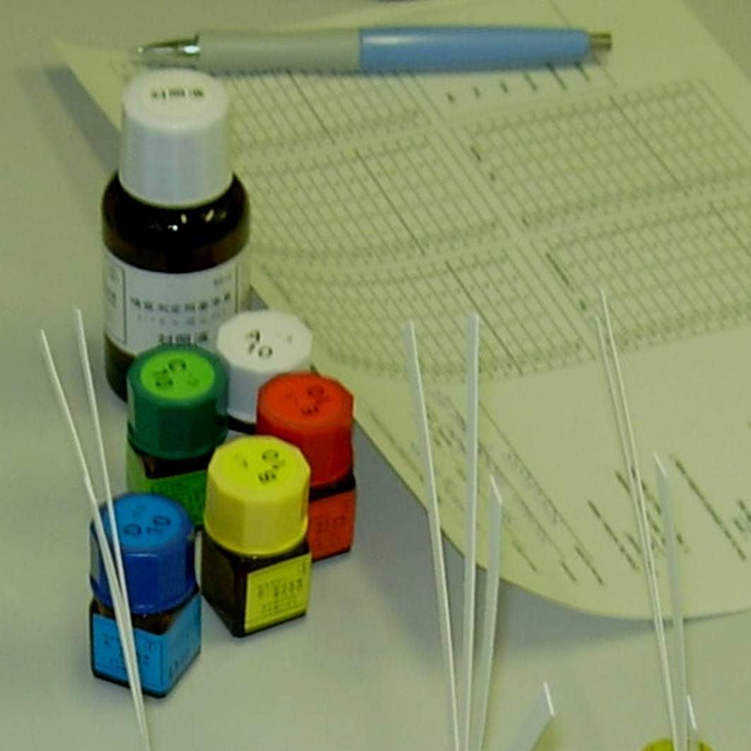 Triangle Odor Bag Method (1)